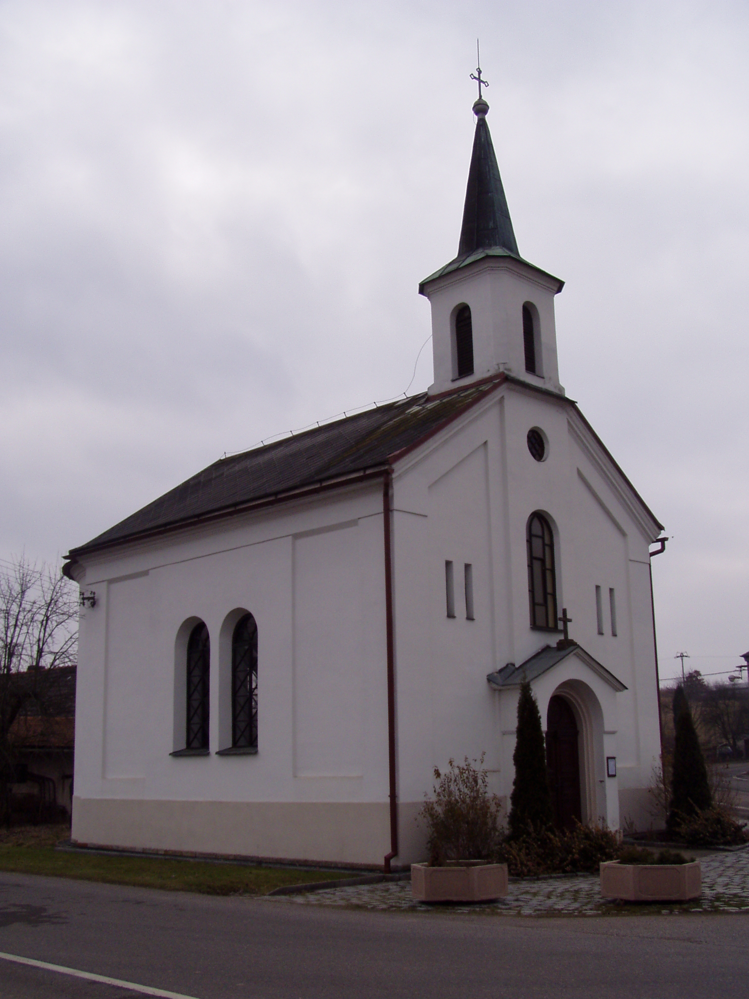 Chapel of the Visitation of Our Lady (Slavětín nad Metují)